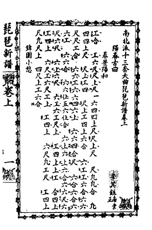 A page showing gongche music notation from the Li Fangyuan pipa collection. First published in 1895 in China.